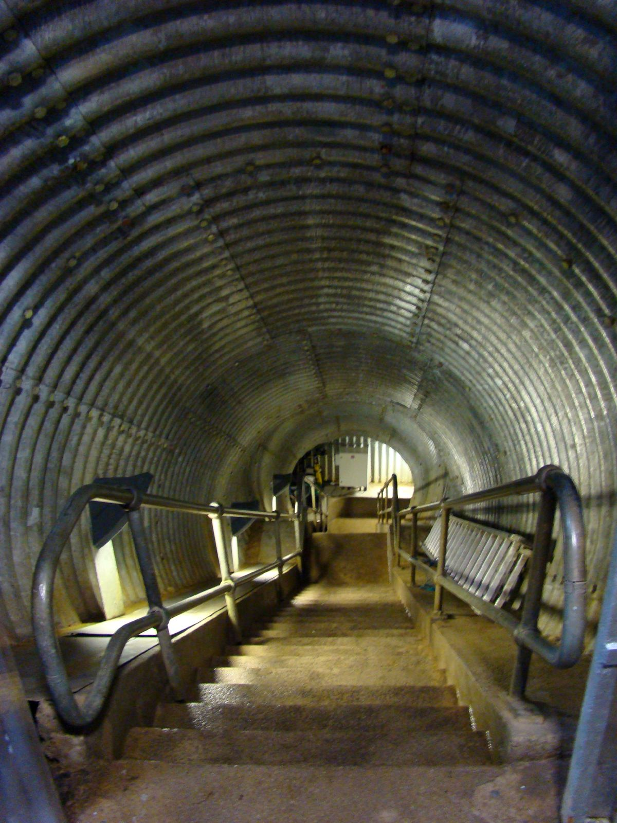 Marble Arch Caves 01